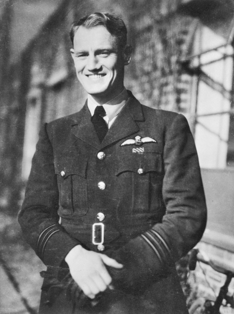 Black & white photo / portrait of Squadron Leader (Sqn Ldr) Phillip (Phil) J. Lamason DFC and Bar, Royal New Zealand Air Force, a pilot with No. 15 (Lancaster) Squadron. The image is not dated at its source, but would have been taken between January 1944 when the subject was promoted to squadron leader, and June 1944 when he was shot down.